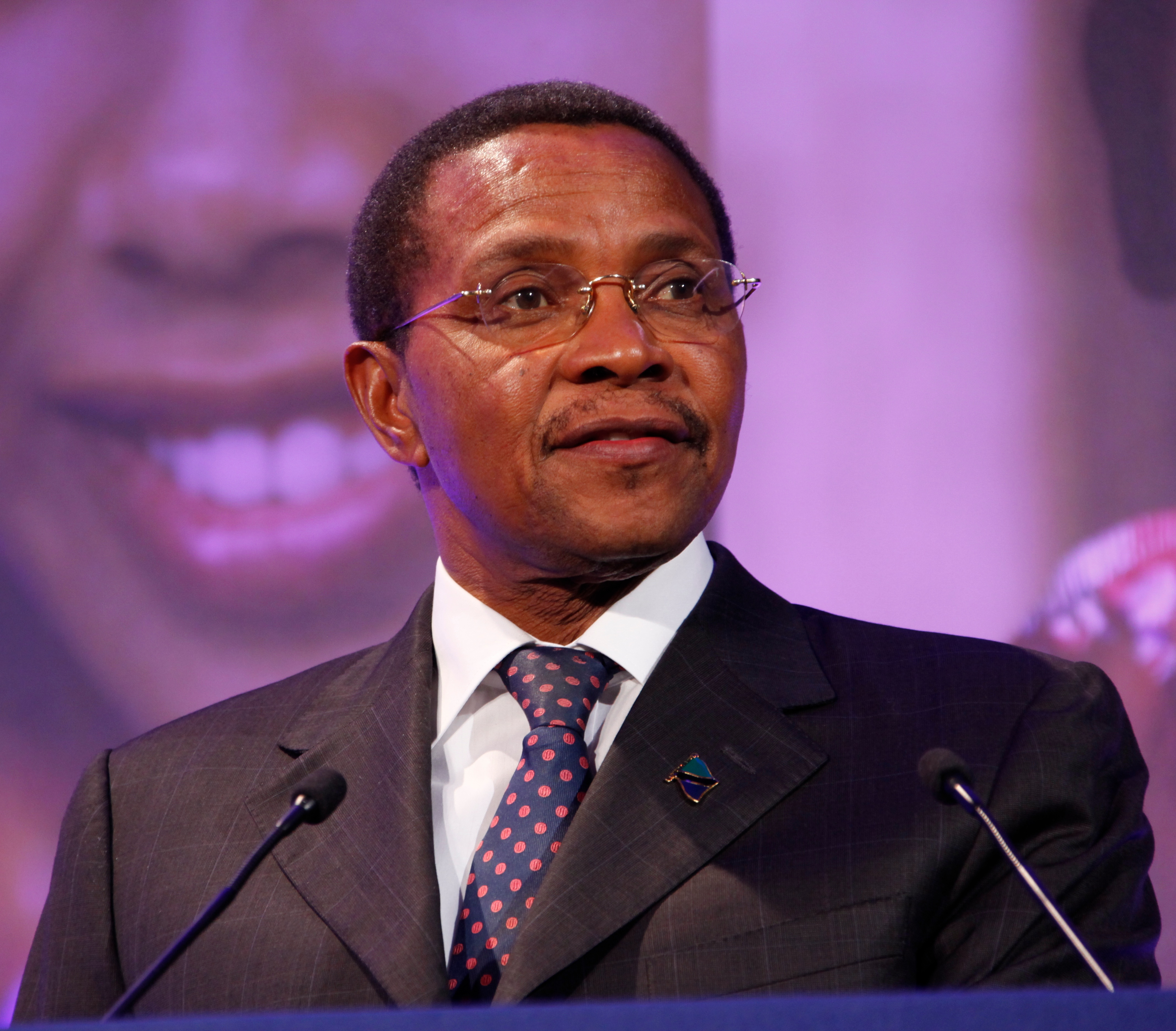 London, 11th July 2012. President Jakaya Kikwete of Tanzania, speaking at the London Summit on Family Planning.